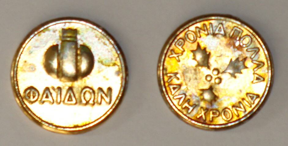 This coin was put in the vasilopita before cooking. It brings good luck to the finder.